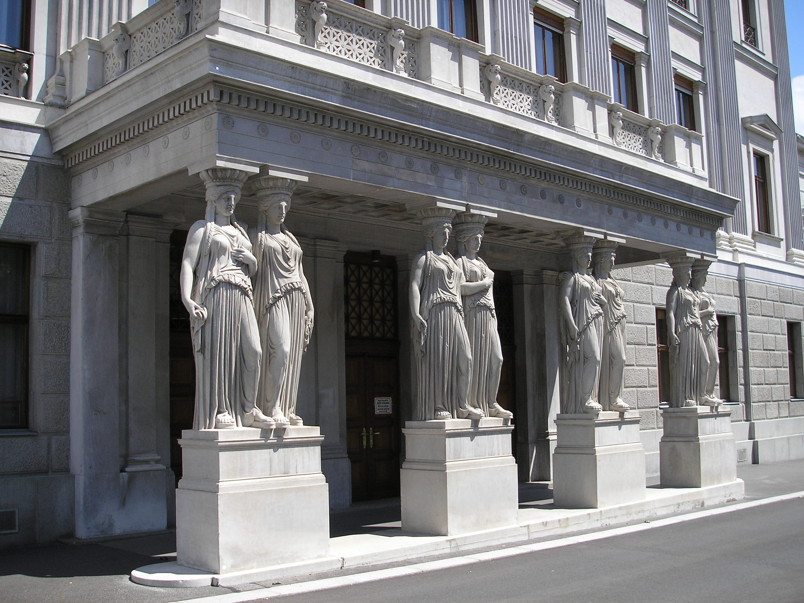 Austria, Vienna, Austrian Parliament Building